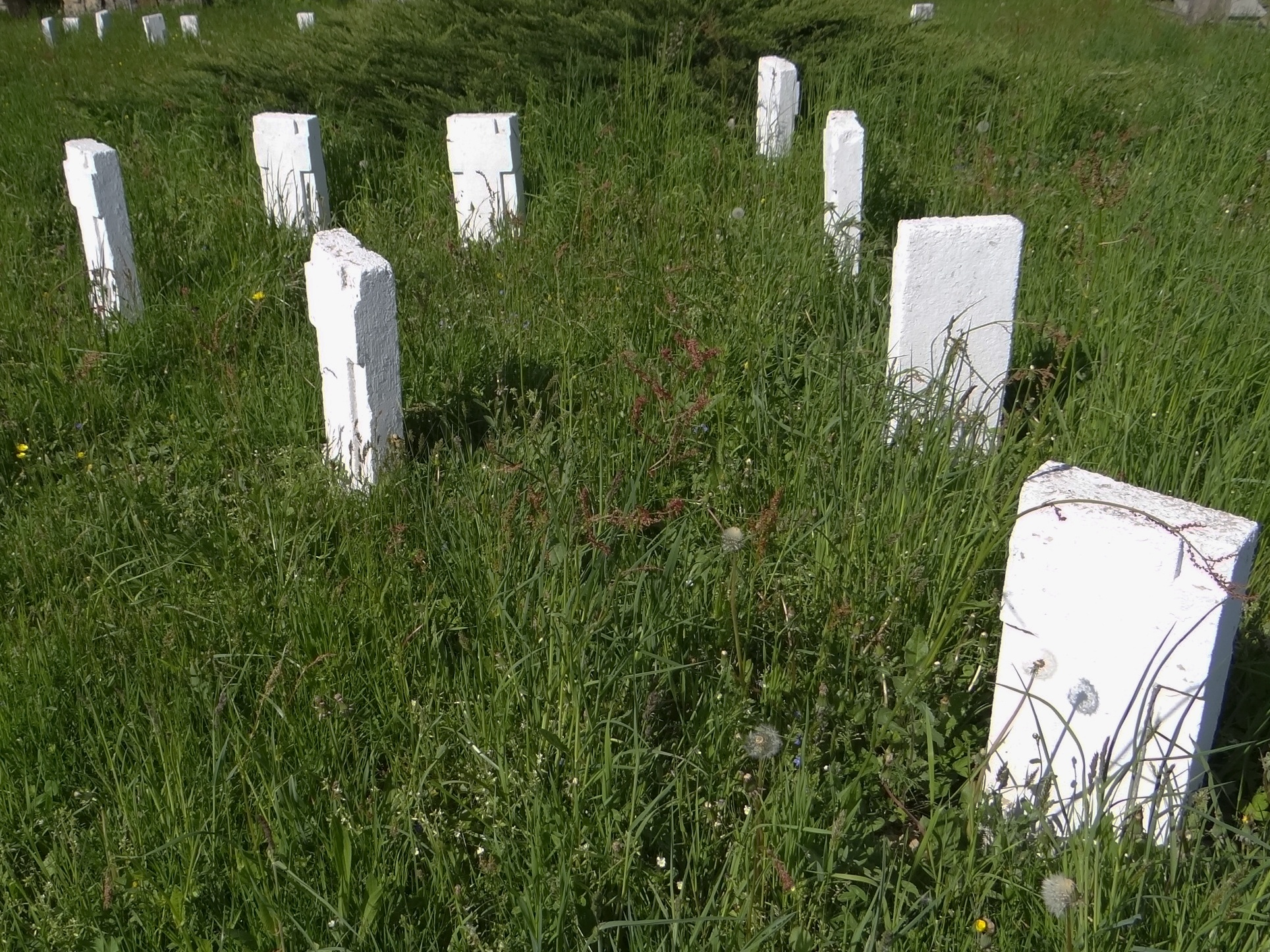 World War I Cemetery nr 114 in Rzepiennik Strzyżewski